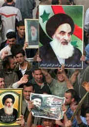 Protests to support Ayatollah al-Sistani